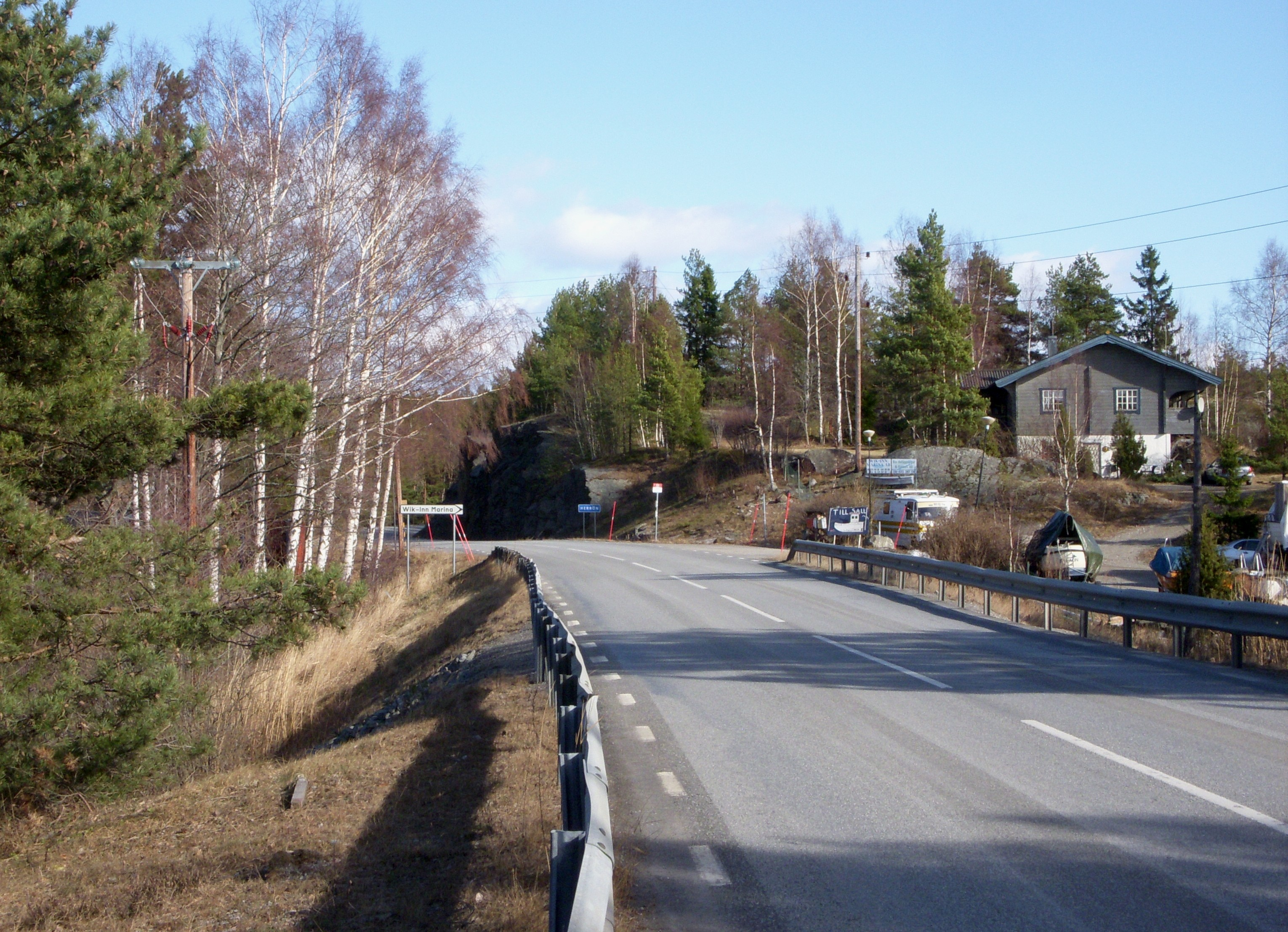 Muskövägen på Herrö.